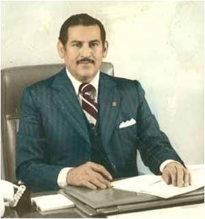 Lic. Jesus Guzmán Rubio